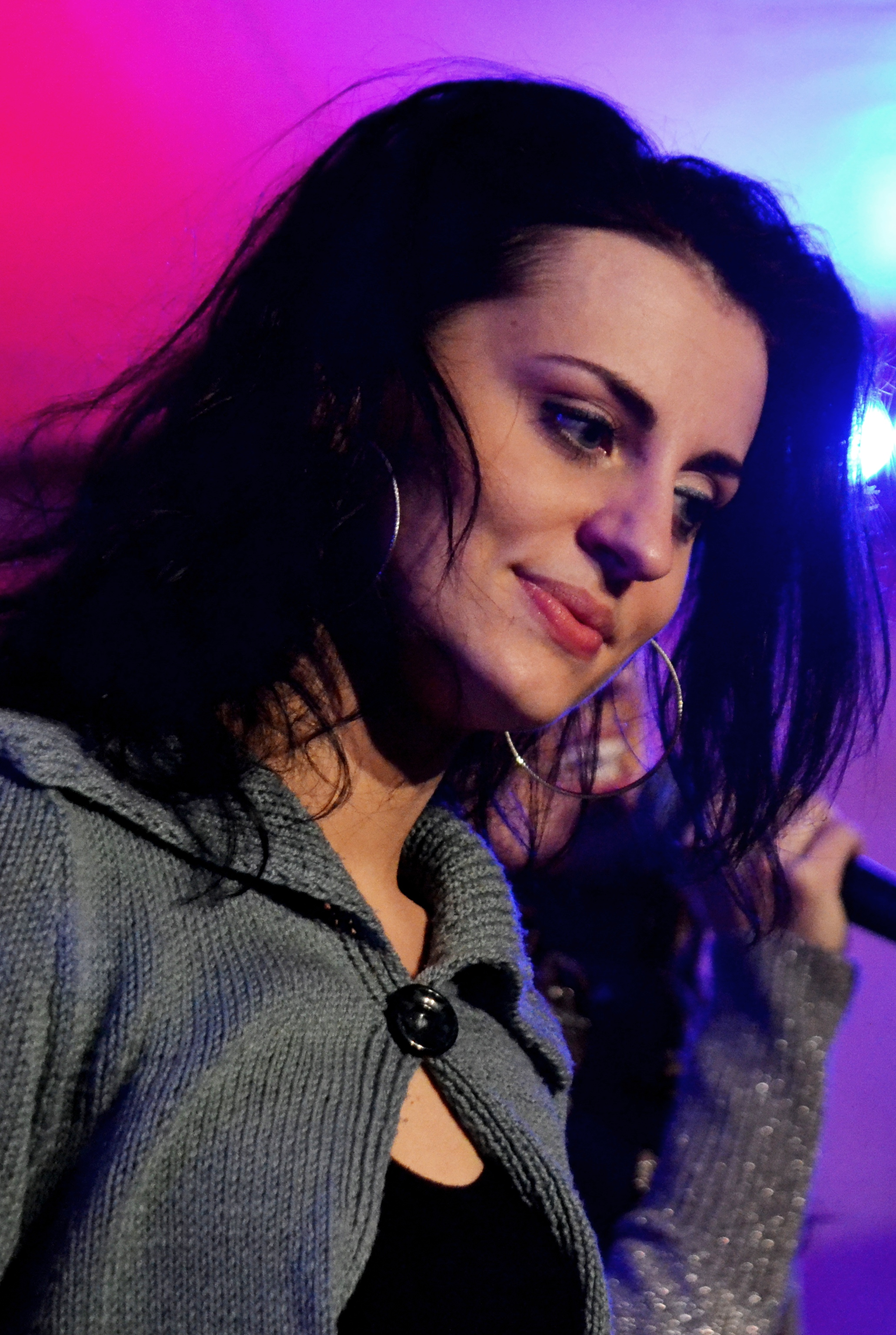 Markéta Procházková, Czech vocalist